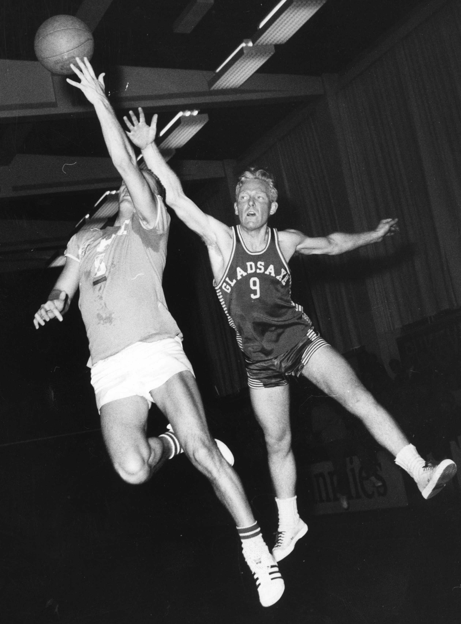 Photograph of the Danish basketball player Bengt Petersen (to the right) of Gladsaxe BBK, playing in Finland against HKT (Helsingin Kisa-Toverit). To the left, Raimo Vartia of HKT.